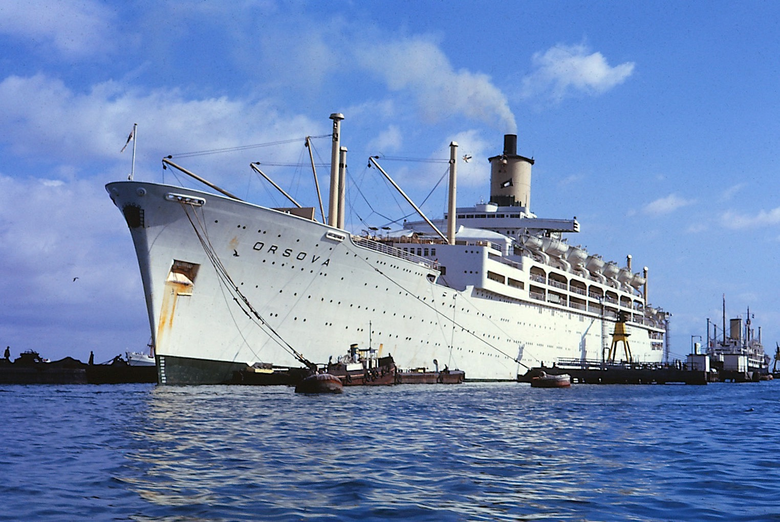 SS Orsova (P&O Cruises) in 1966